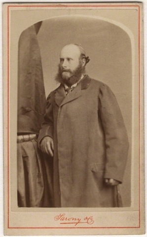 George Philip Cecil Arthur Stanhope, 7th Earl of Chesterfield, Historic Photo